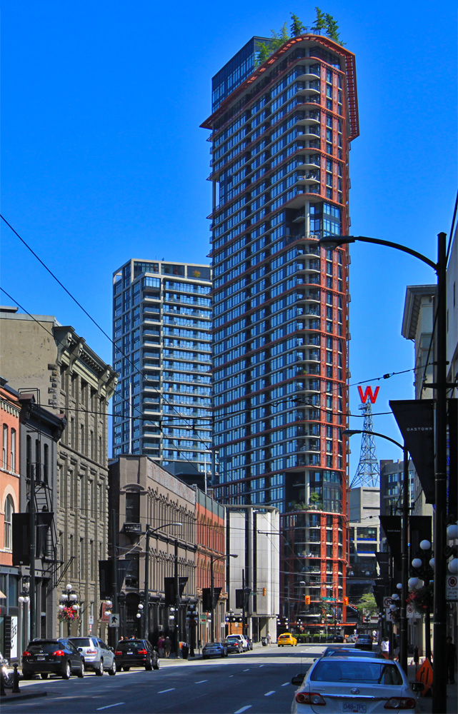 Woodwards W-43 residential tower in Vancouver.